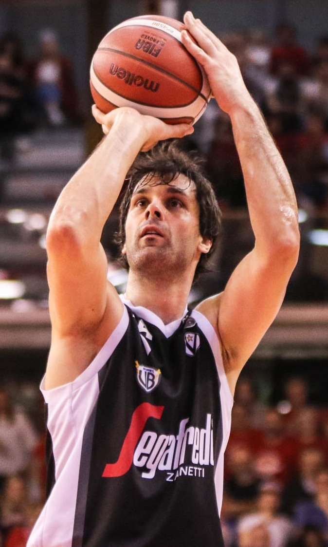 Milos Teodosic